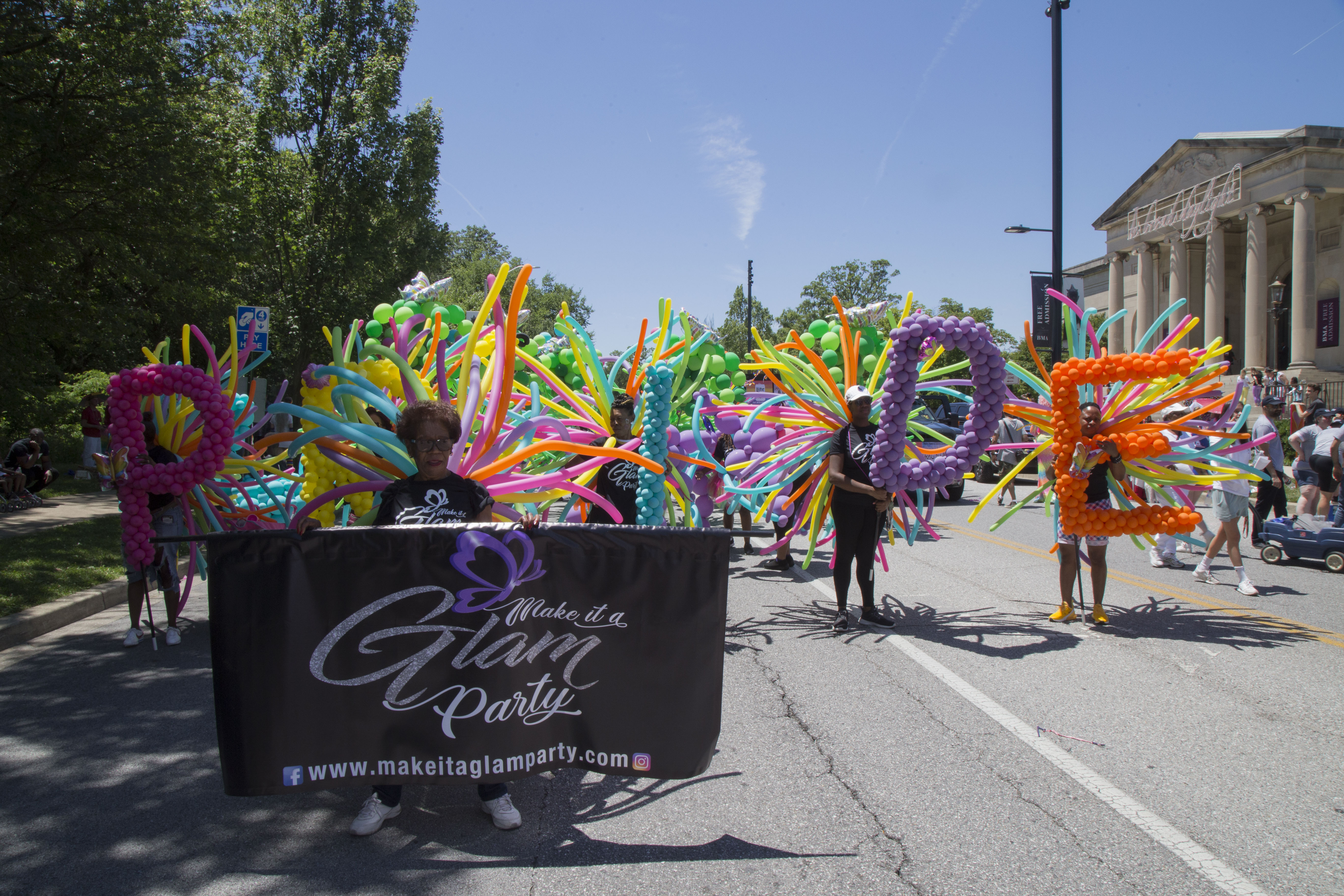 Photo by Katie Simmons-Barth 2019 Baltimore Pride Parade